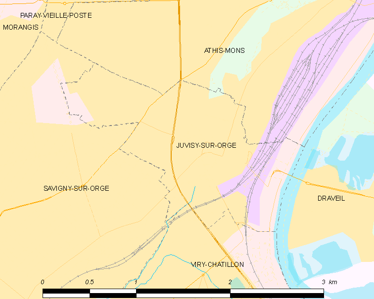 Map of French municipality Juvisy-sur-Orge